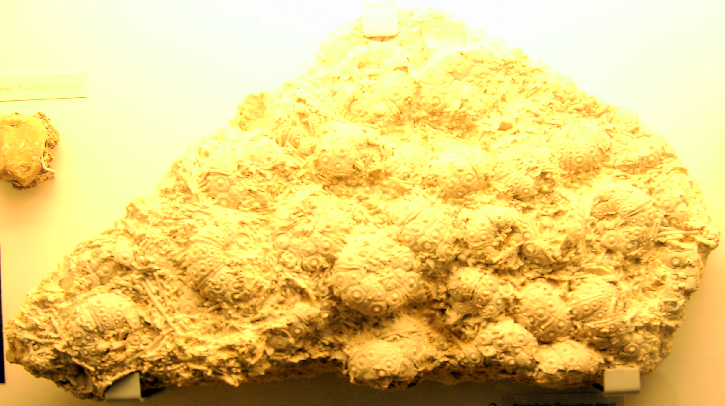 Temnocidaris danica fossil at the Geological Museum, Copenhagen.